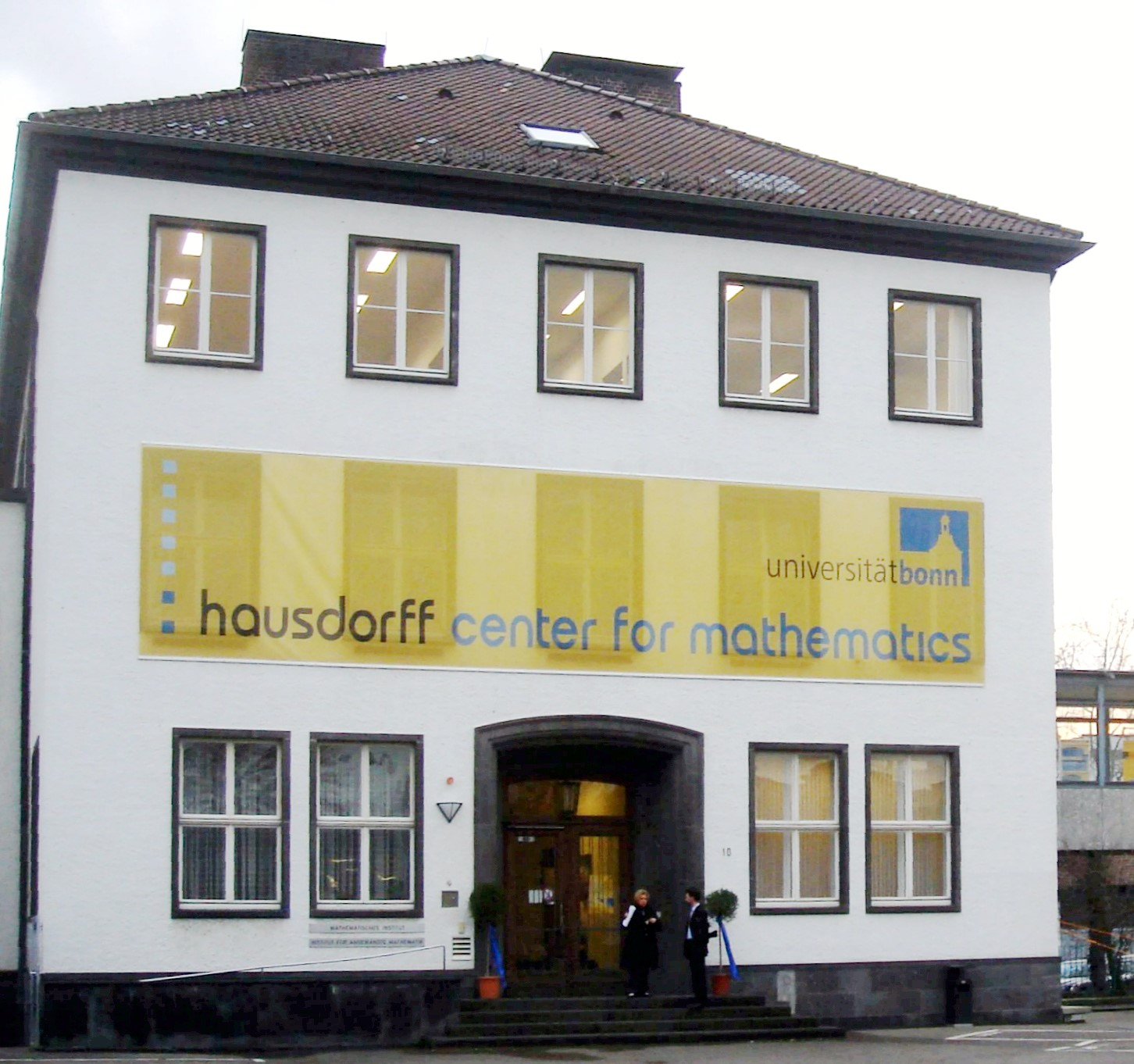 Opening of the Hausdorff Center for Mathematics at Mathematics Institute, Bonn University, Germany.